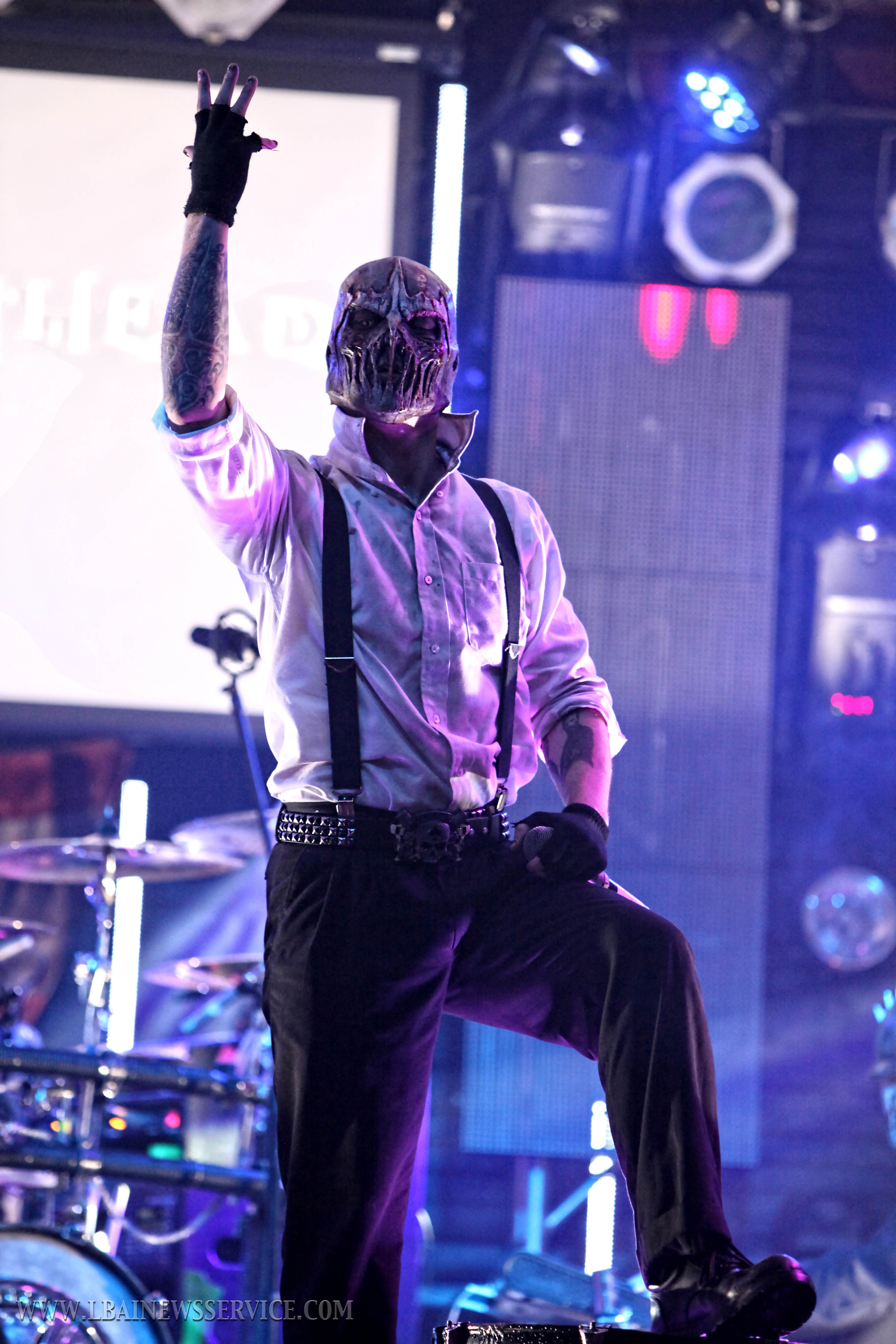 Waylon Reavis, from Mushroomhead, live in Florida.